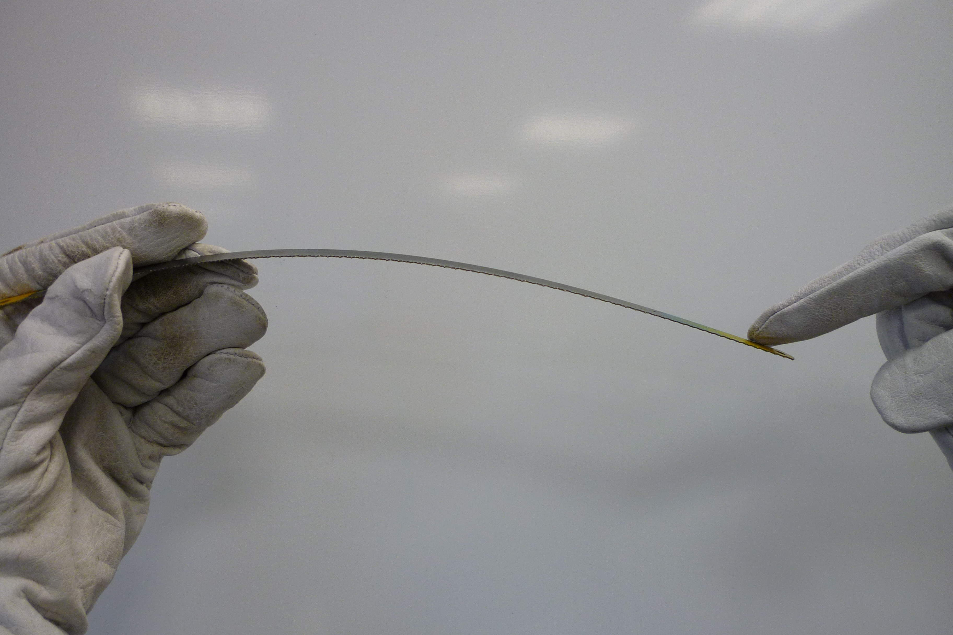 Saw blade enduring flexion, elastic deformation.